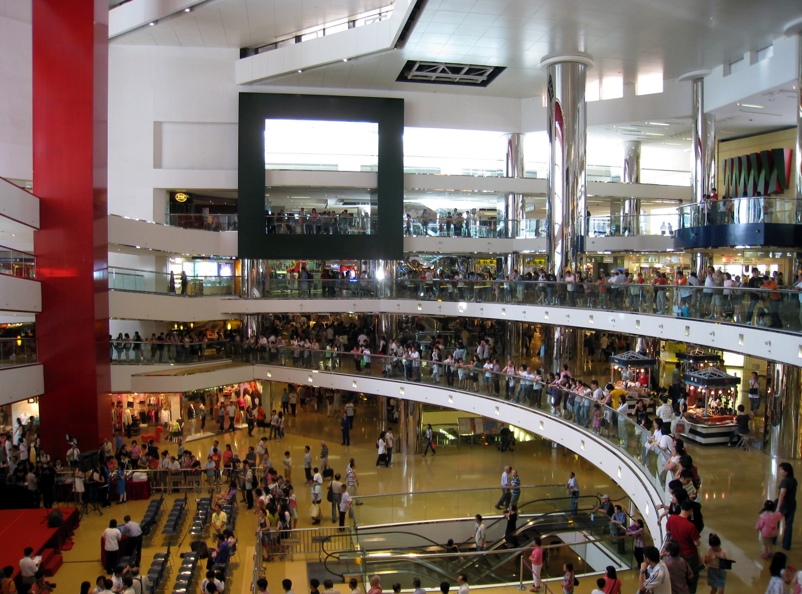 HK Cityplaza Phase 1 Void 太古城中心一期中庭